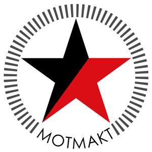 The logo of the Norwegian libertarian socialist organisation, Motmakt.